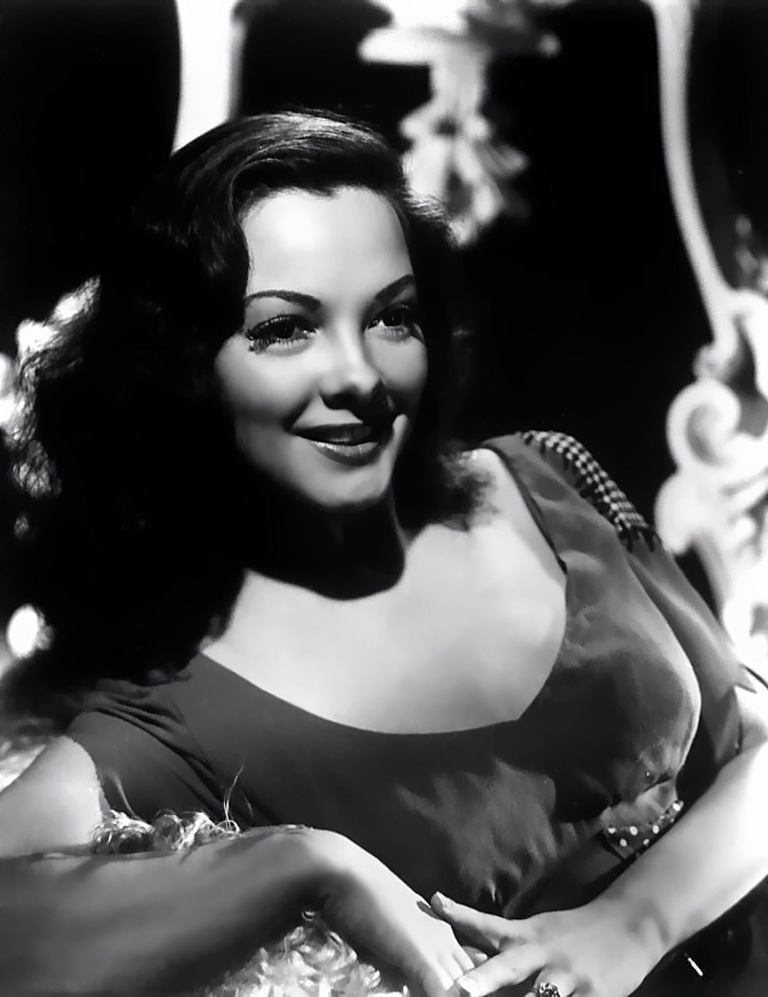 Kathryn Grayson (February 9, 1922 - February 17, 2010) was an American actress and operatic soprano singer.